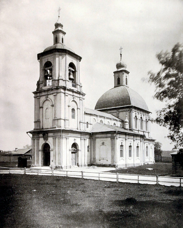 Church of Theotokos Orans in Peryaslavskaya Sloboda, Moscow.